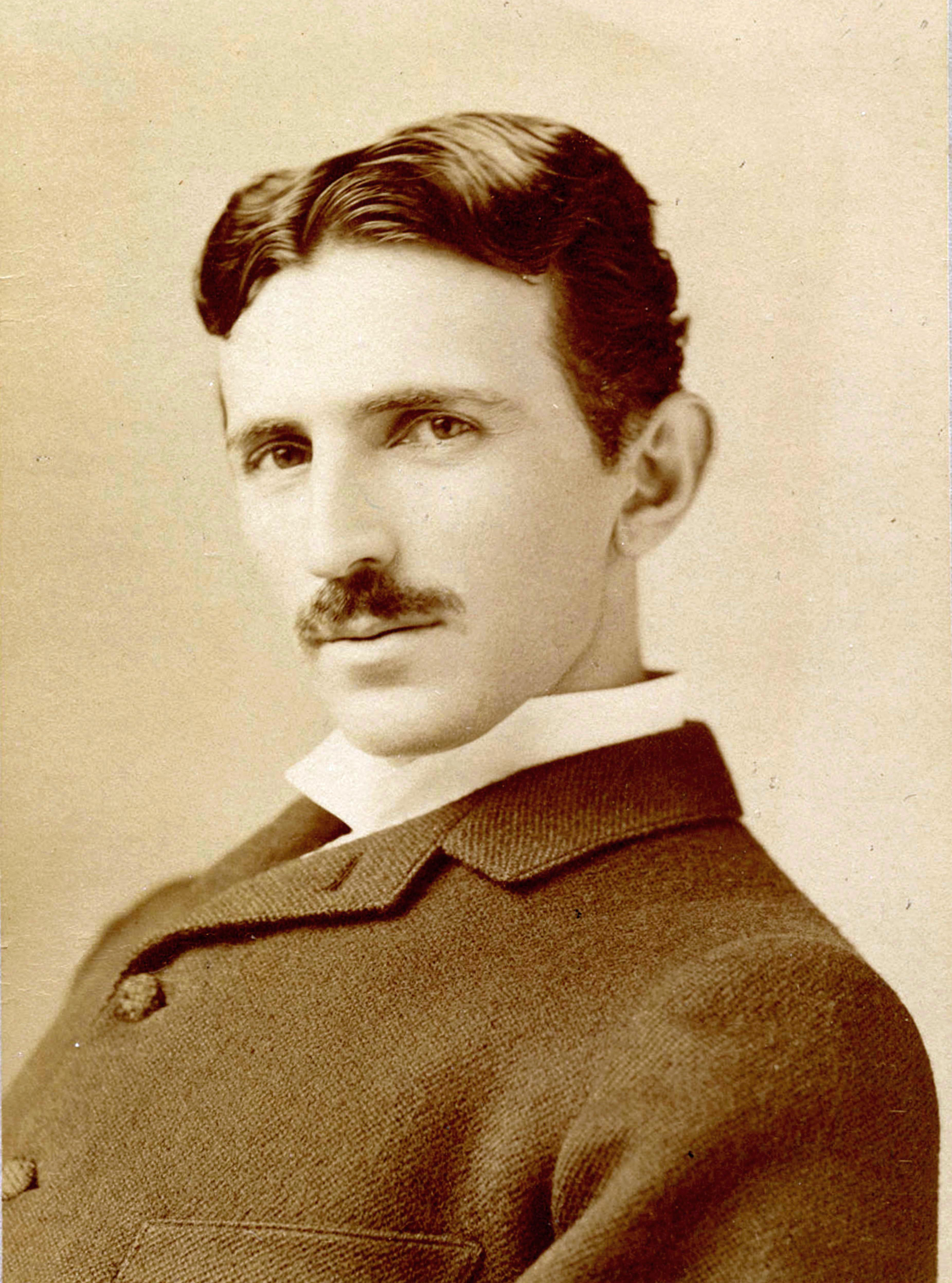 Photograph of Nikola Tesla